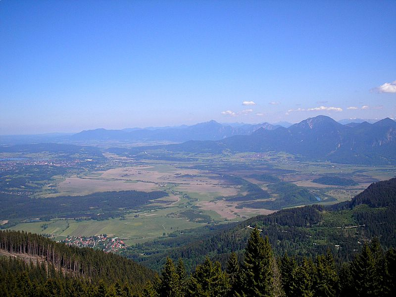 Murnauer Moos (Murnau bog) near Garmisch-Partenkirchen, Upper Bavaria, Germany. Total view from Mount Hoernle. Eigene Aufnahme/Own photo 2007-05-xx